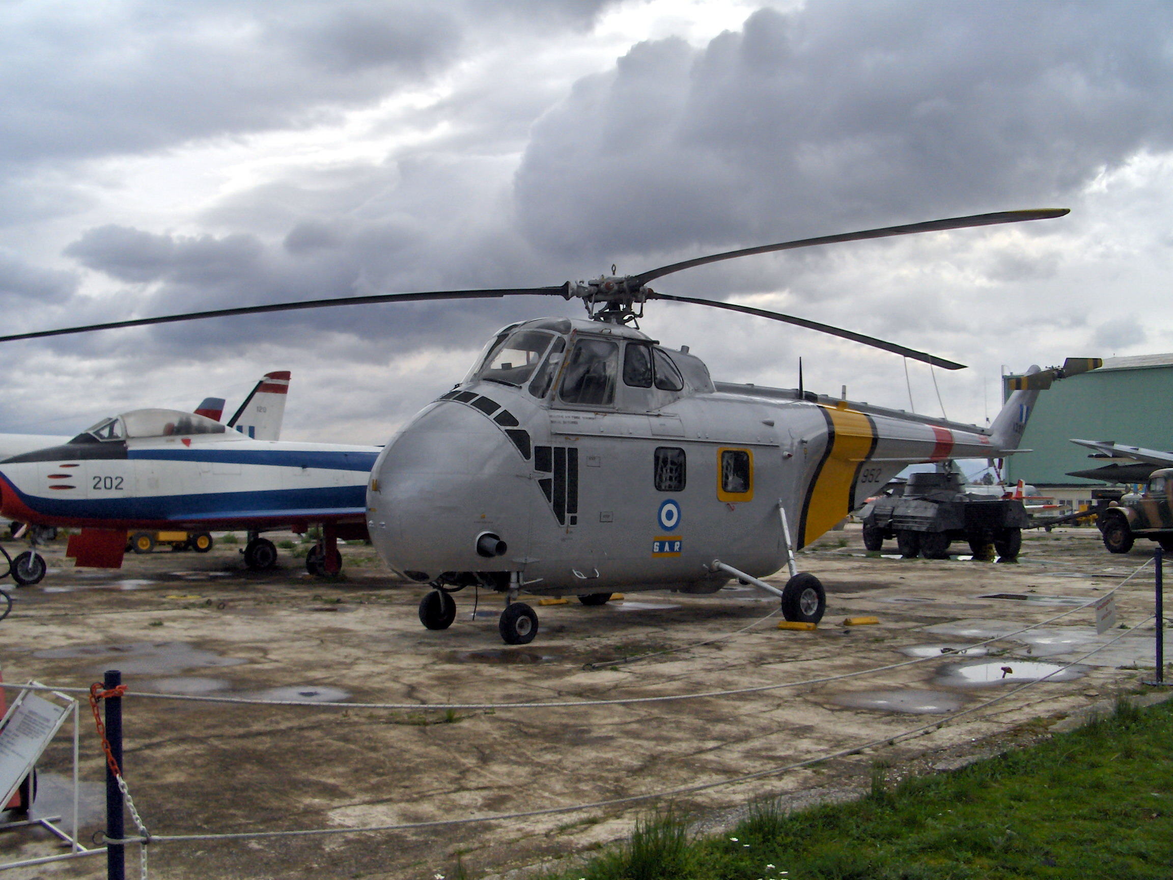 Exhibit at the Hellenic Air Force Museum at Dekelia (Tatoi), Athens, Greece. Sikorsky UH-19D Chickasaw